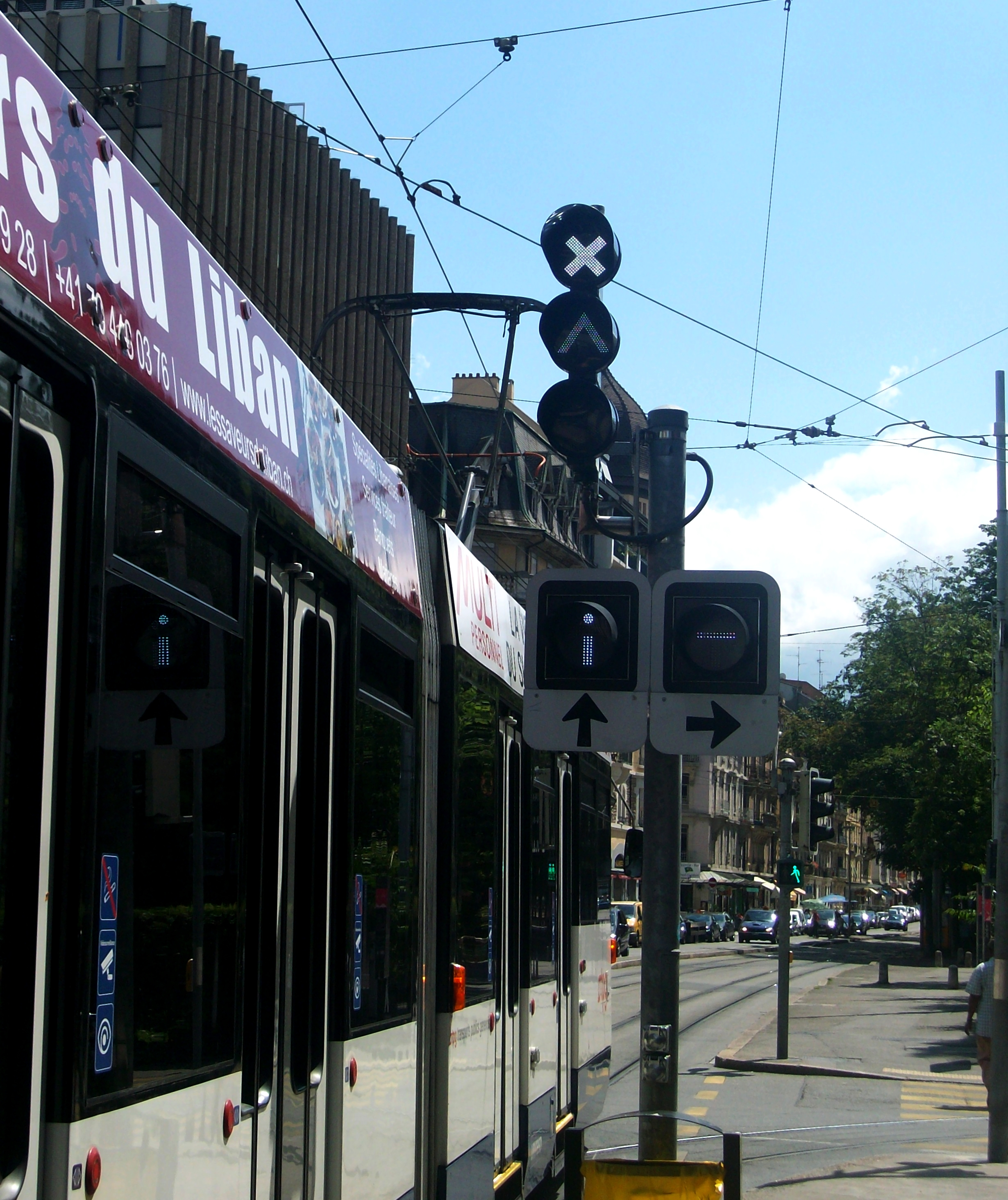 Duewag-Vevey Be 4/6 (TPG), Geneva